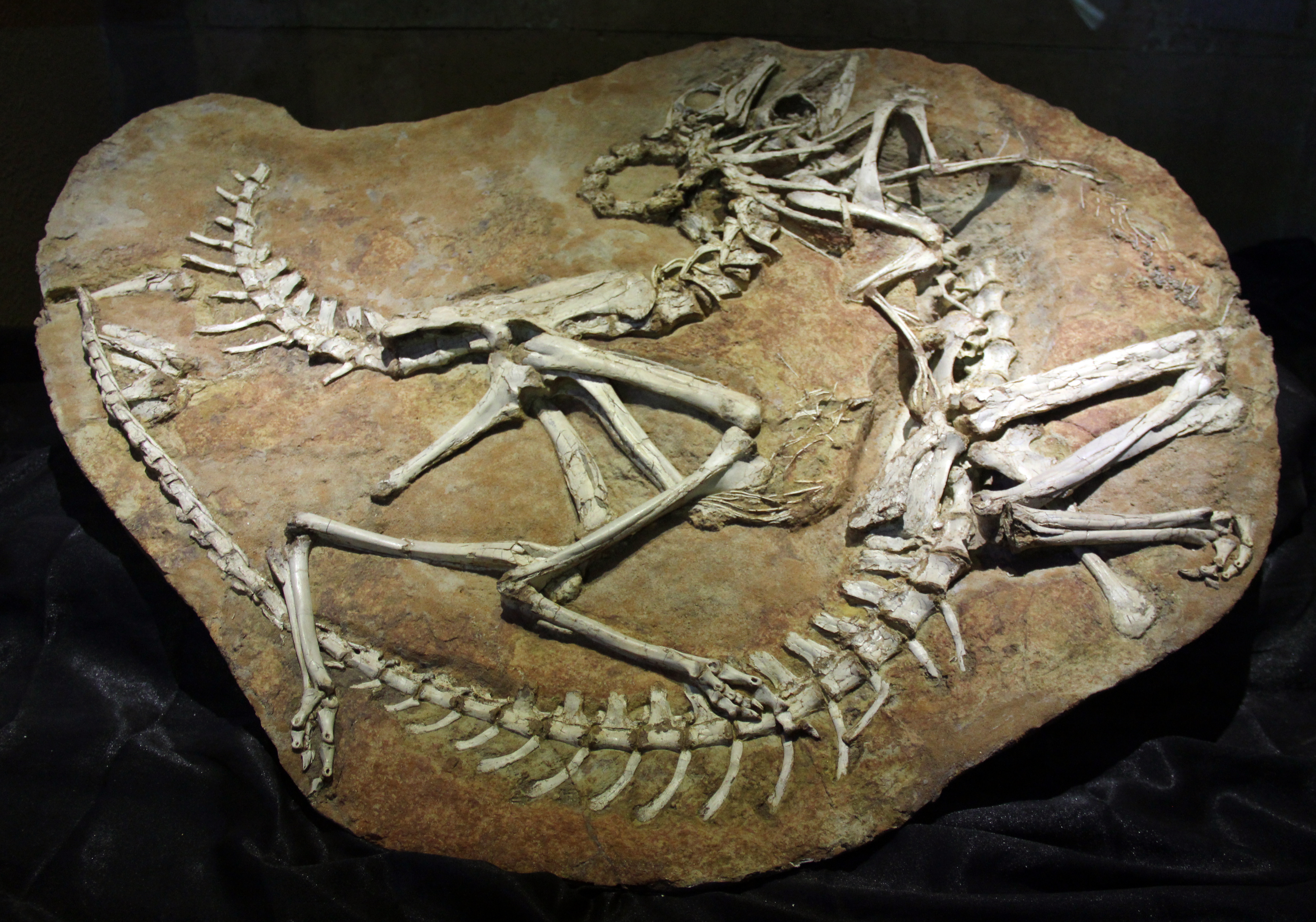 Central Museum of Mongolian Dinosaurs, Ulaanbaatar. Complete indexed photo collection at .